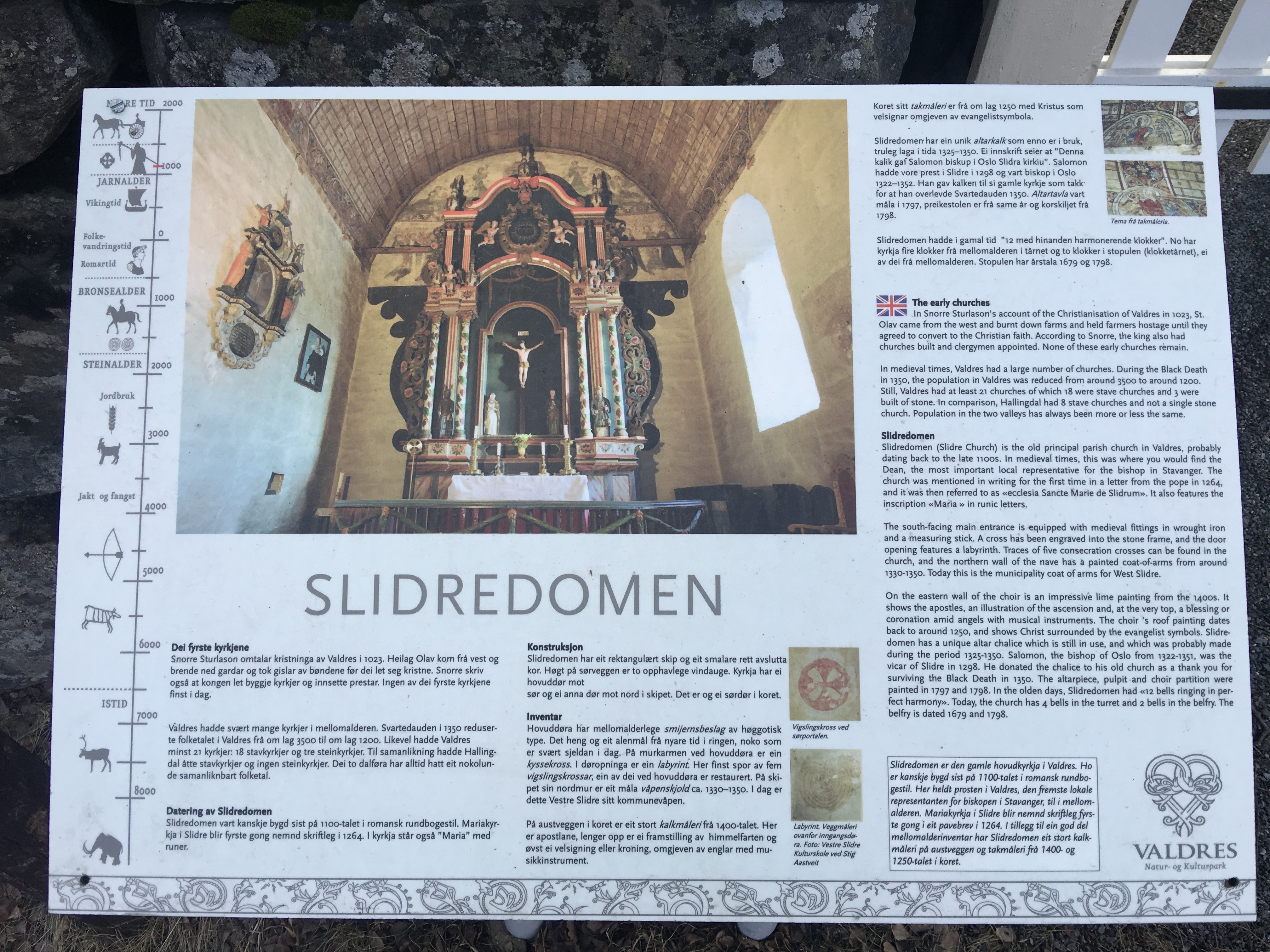 Slidredomen (Slidre kyrkje), a medieval era church located in Vestre Slidre municipality in Oppland, Norway. Information board (no copyright markings)